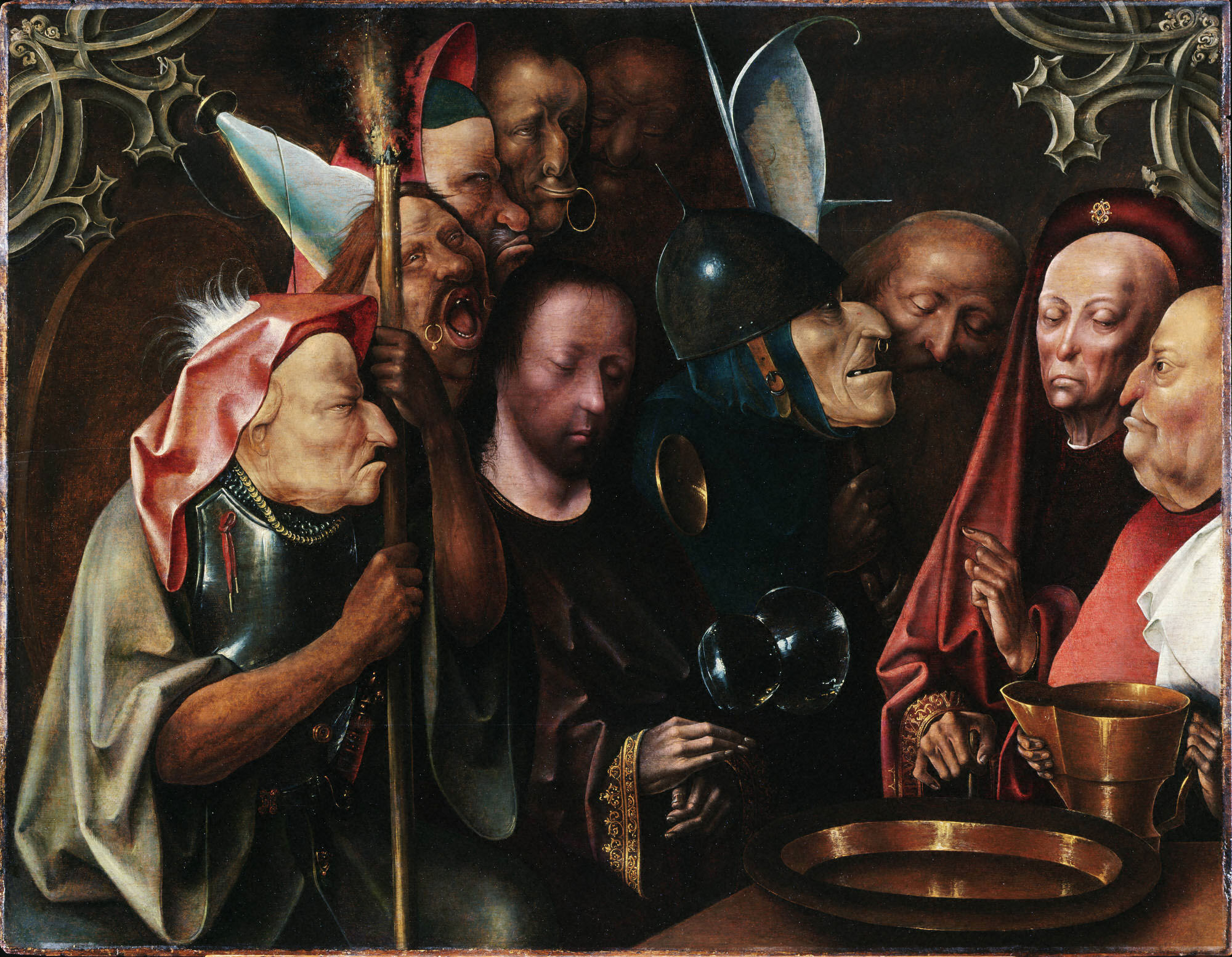 Christ is a center of calm and beauty amidst the howling mob that has brought him to trial before Pontius Pilate. The governor is ready to wash his hands of Jesus, saying “I am innocent of the blood of this just person: see ye to it” and delivering him to be scourged and crucified (Matthew 27:24–26). The artist seems familiar with Leonardo da Vinci’s studies of “ideal ugliness,” counterparts to his studies of “ideal beauty,” and has used bizarre visages to convey the degradation of fallen humanity. The viewer sees up-close the gruesome figures with distorted features and nose rings thanks to the half-length format and crowding of figures against the picture plane. These are typical features of a type of Flemish devotional picture then in favor. The Gothic architectural elements in the upper corners suggest the staged quality of the scene and create a theater of piety and morality that suspends Pilate’s action in time.